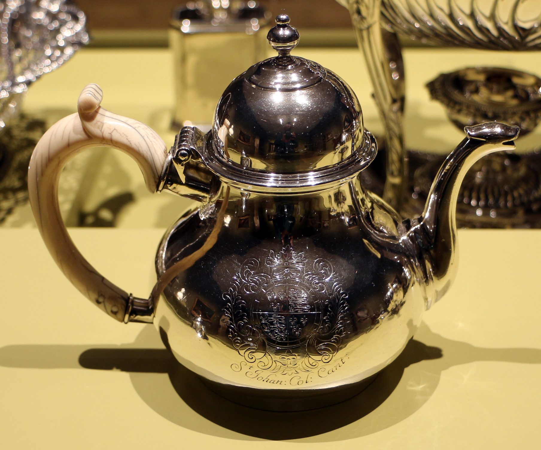 Metalware in the Milwaukee Art Museum